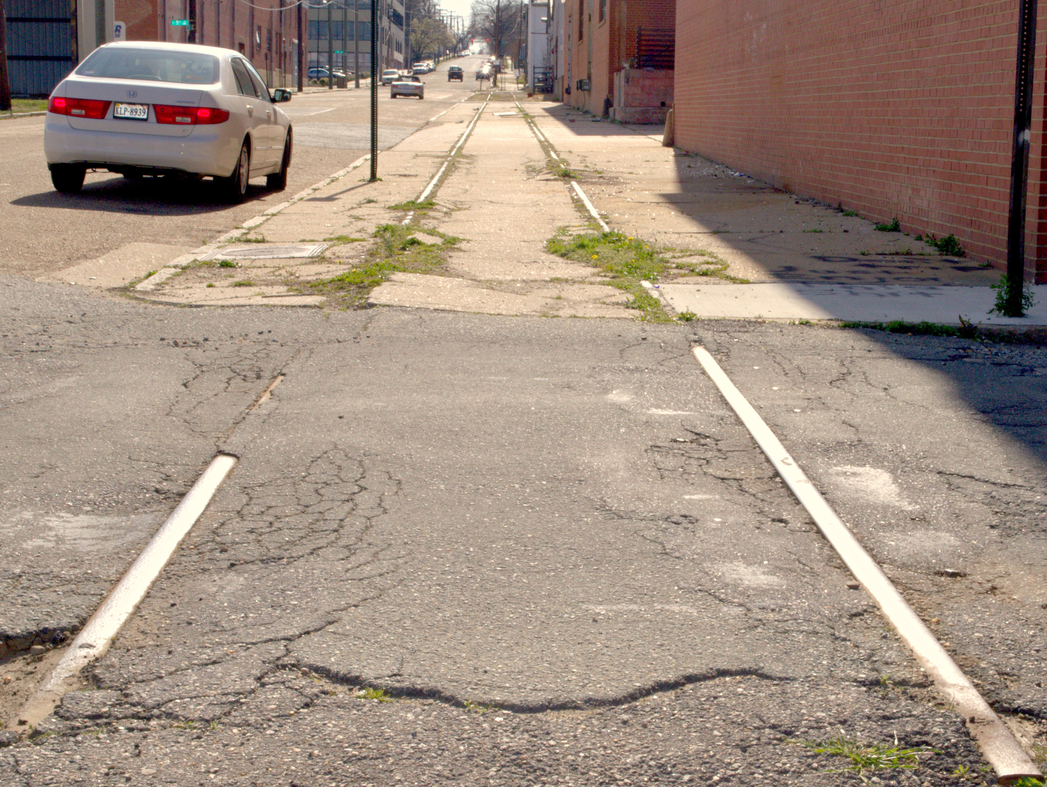 Trolley Tracks of the old Richmond Trolley near the old Hull Street Station.